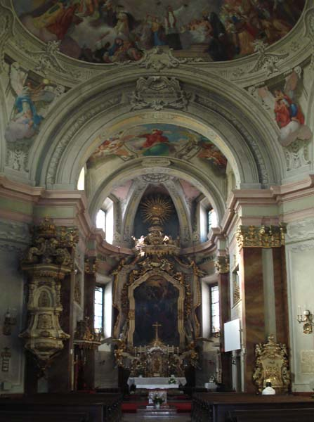 Mindszent Church inner, Miskolc, Hungary